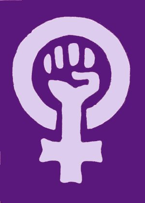 One of the symbols of German Women's movement (from the 1970s)